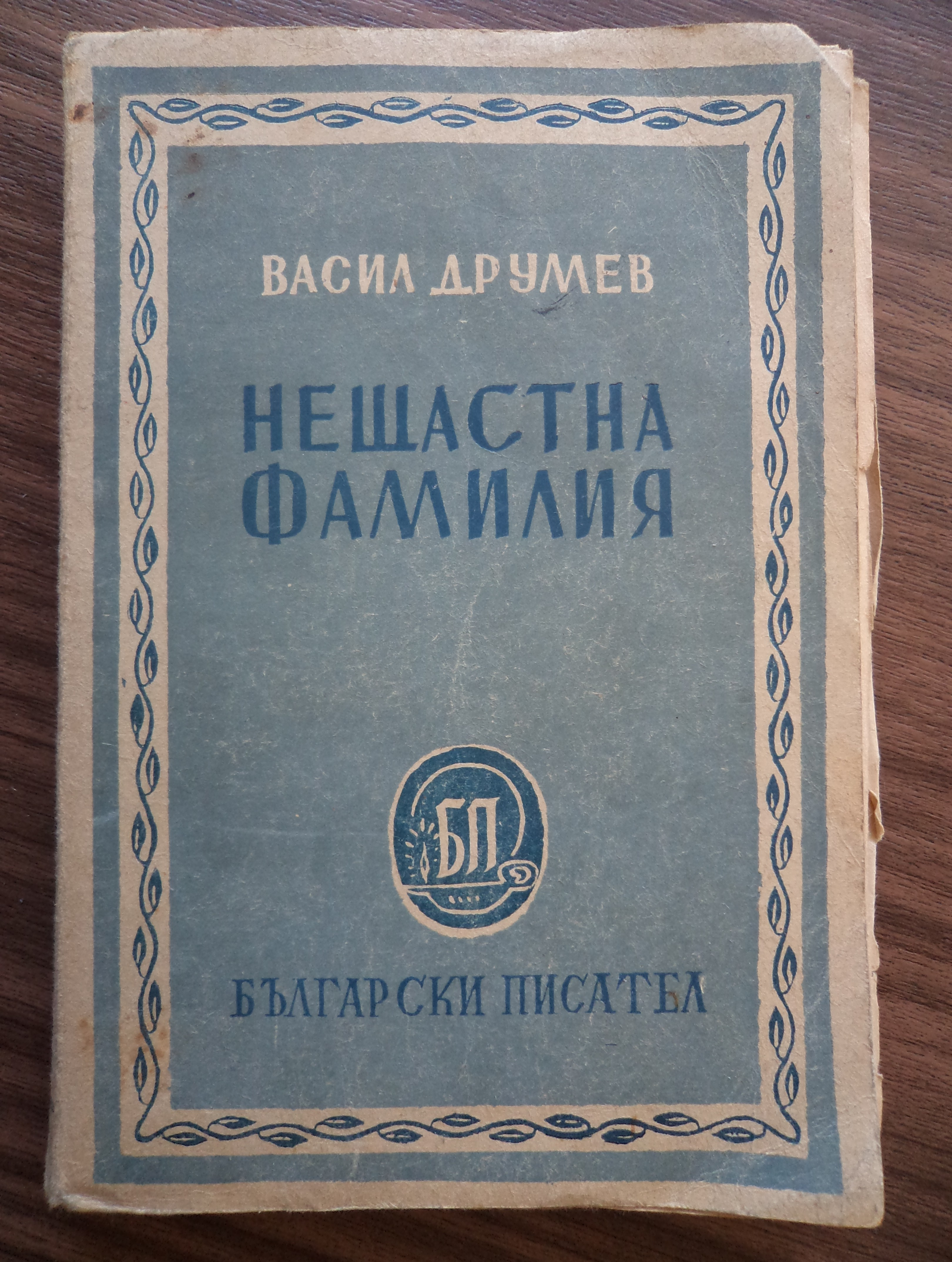 "Unlucky Family", Vasil Drumev, 1860 (edition 1947)